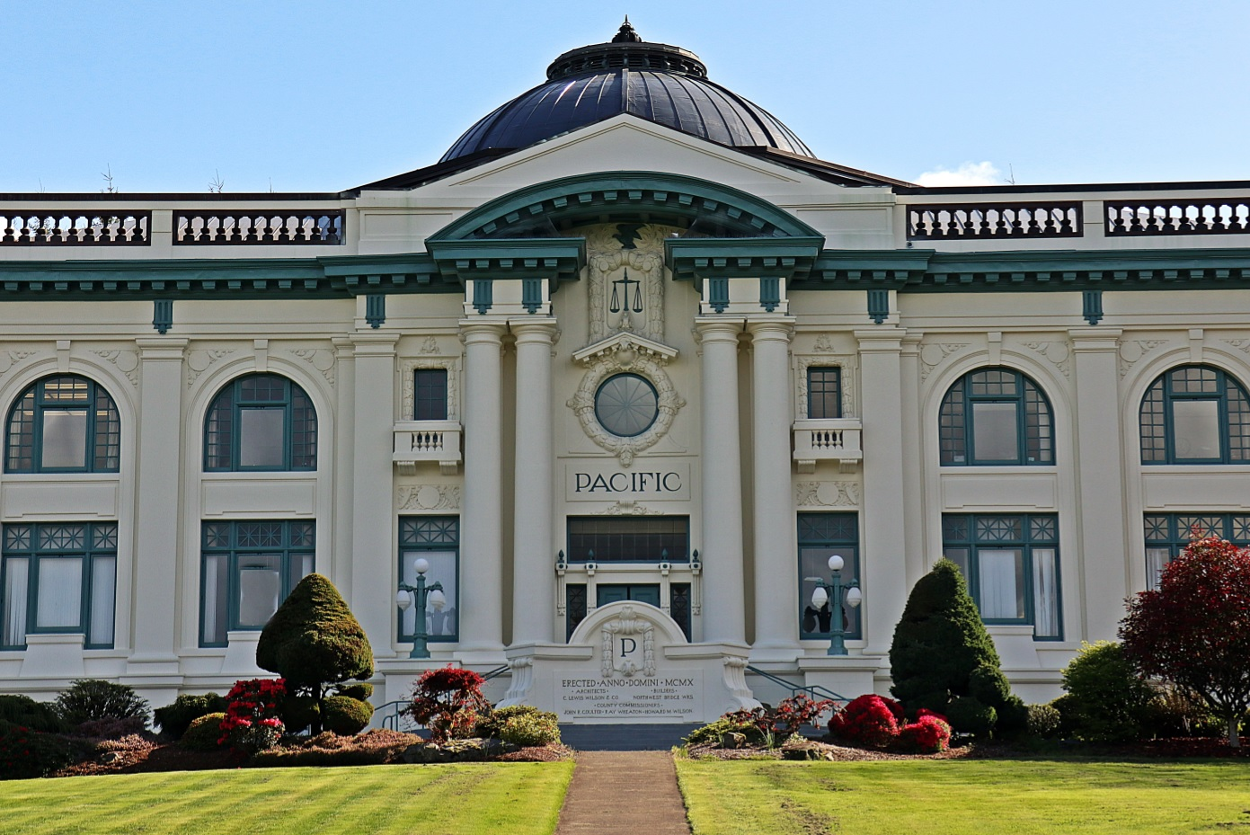 Pacific County (WA) Courthouse pictured in 2020